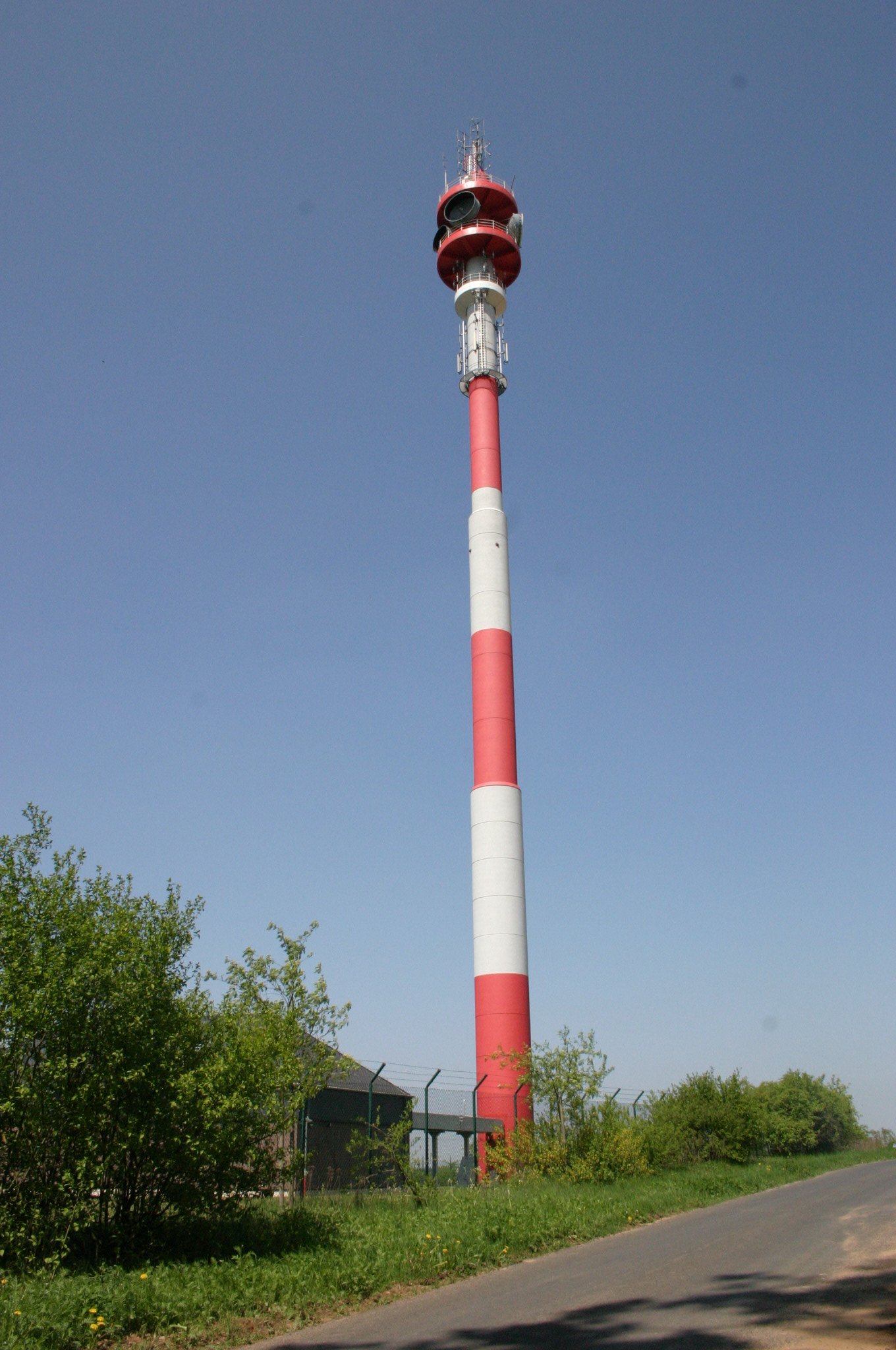 Tower in Blaschette (Luxemburg)